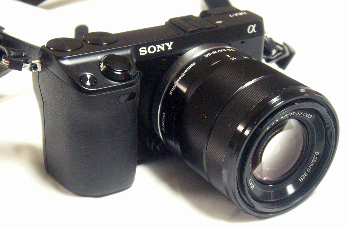 SONY NEX-7 with E 3.5-5.6/18-55 OSS